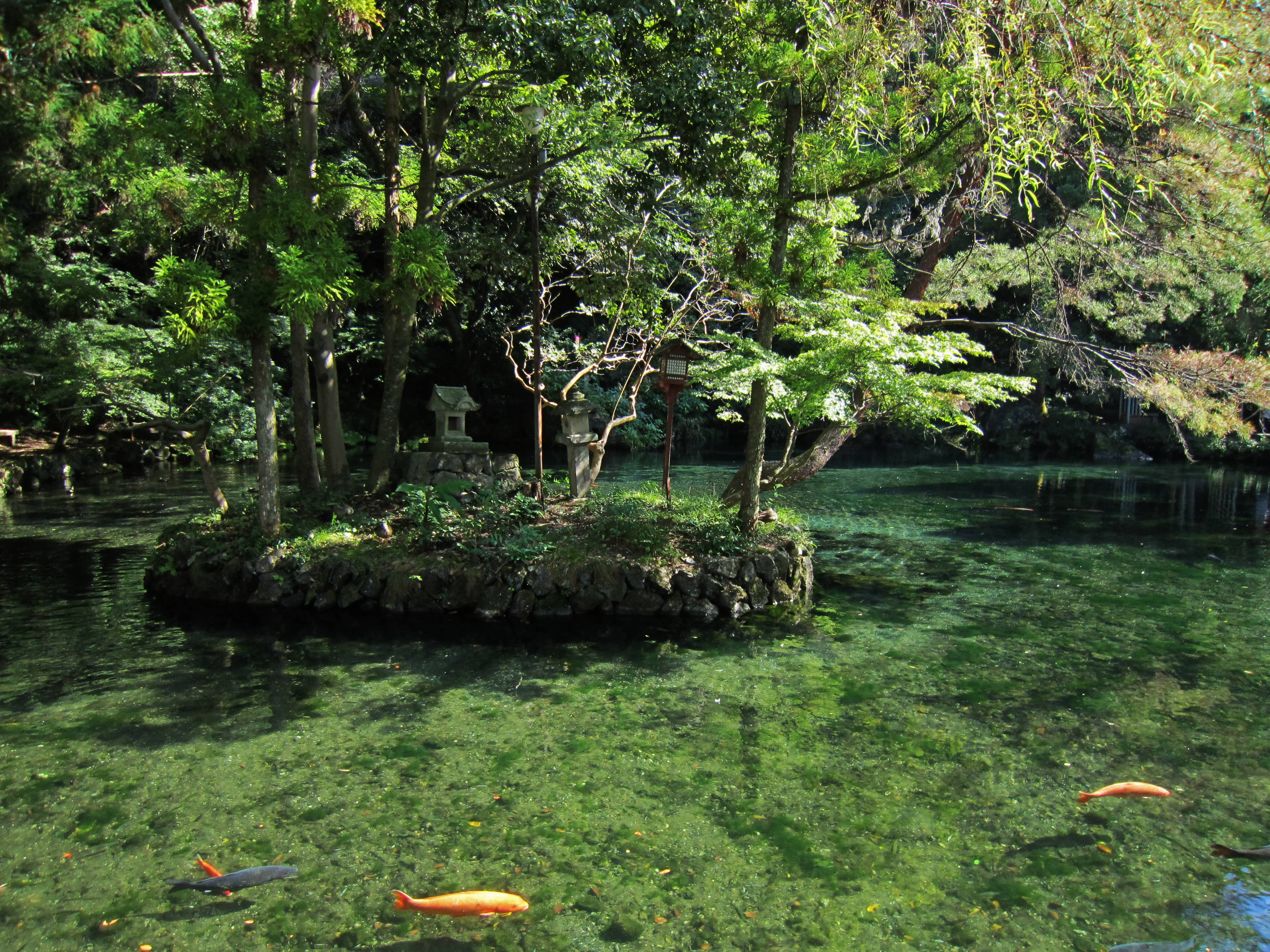 Izuruhara Benten Pond.